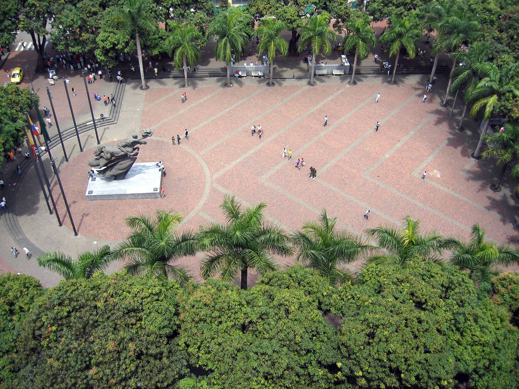 Picture from the Plaza de Bolivar of Pereira, Autor